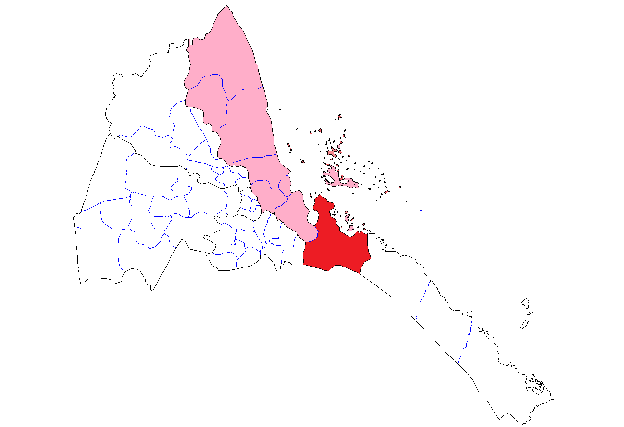 Ghela'elo District